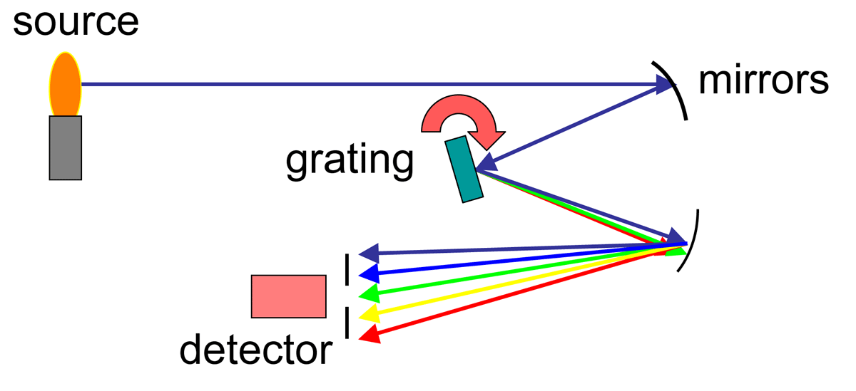 Schematic of a flame emission spectrometer.